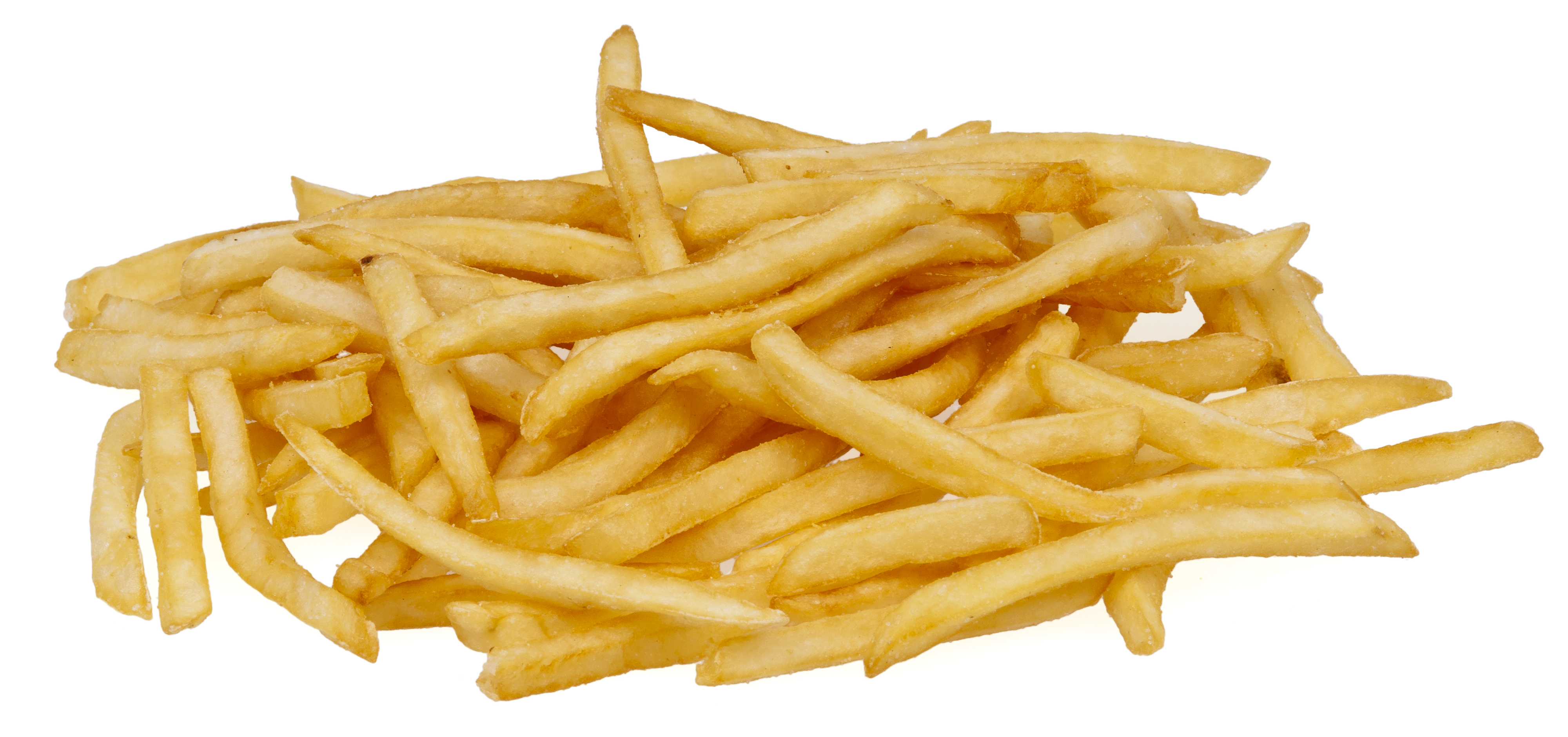 McDonald's french fries on a white stoneware plate.